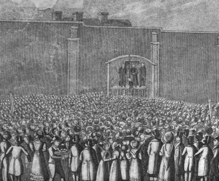 The execution of William Corder, the Red Barn Murderer